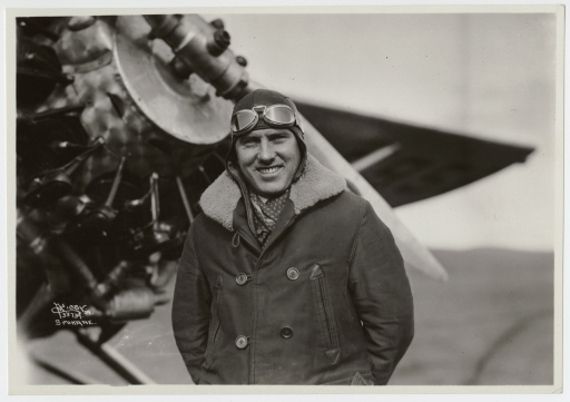 Mamer Flying Service. Nick Mamer in front of the airplane. 6, March 1929